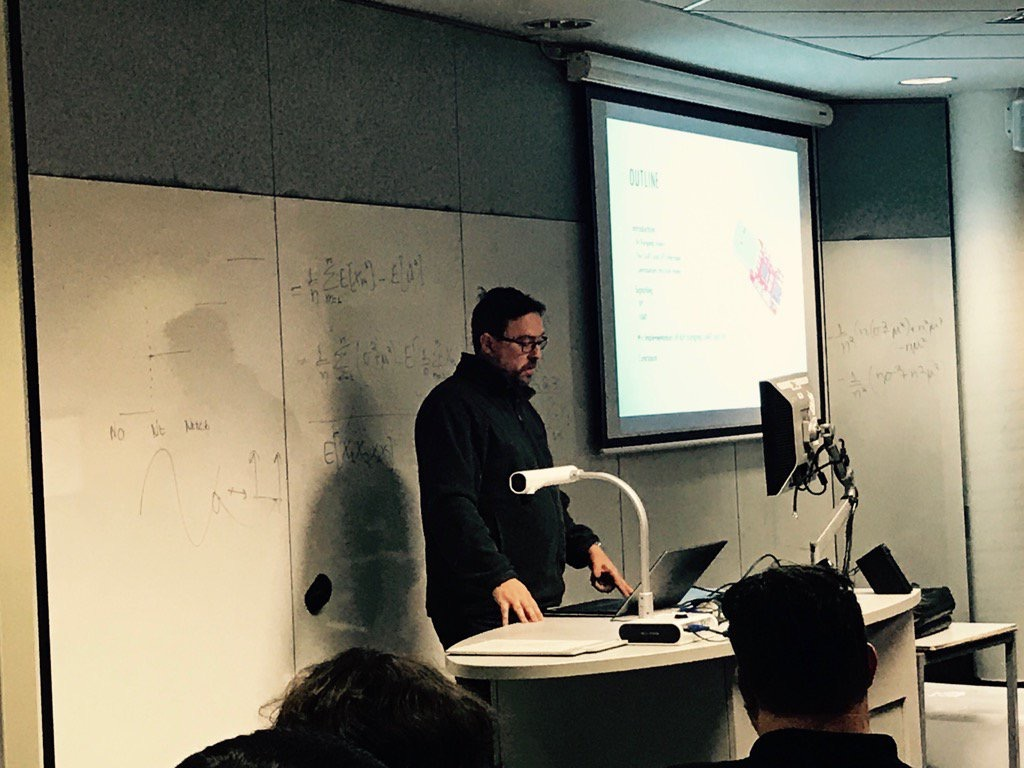 Billvio Cesare illuminating the masses on the wonders of the blockchain - and creating an automated UART baud rate detector.